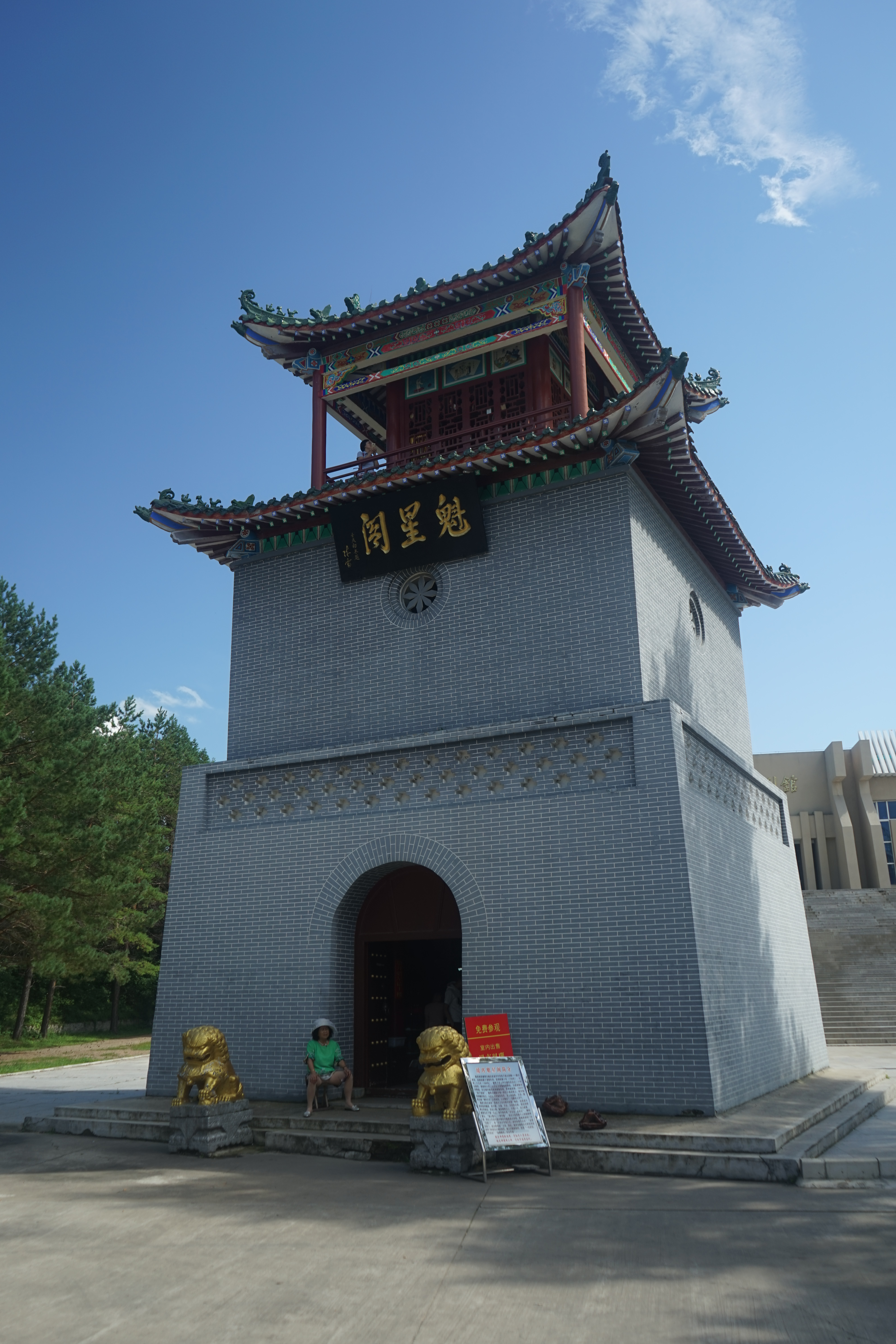 facade of Kuixing Pavilion (魁星阁)